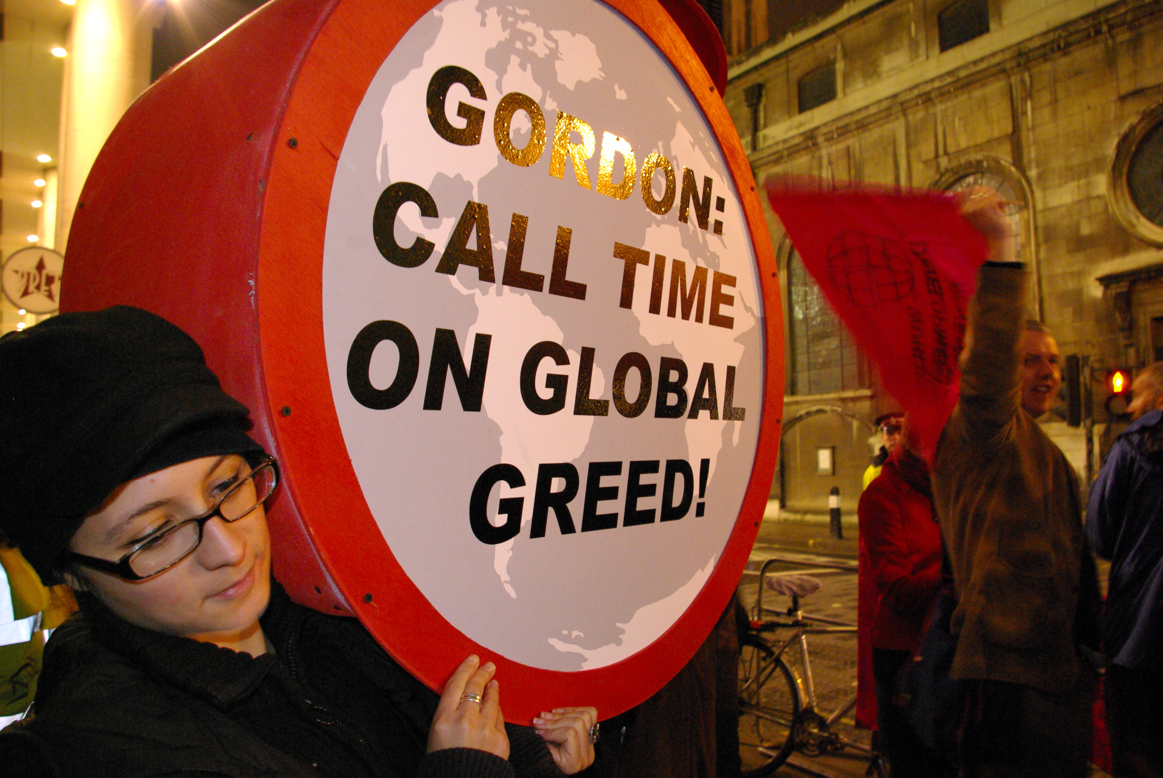 Protest outside the Guildhall with War on Want, World Development Movement, Trade Justice Movement, Jubilee Debt Campaign, New Economics Foundation, CAFOD, Action Aid and Stamp Out Poverty